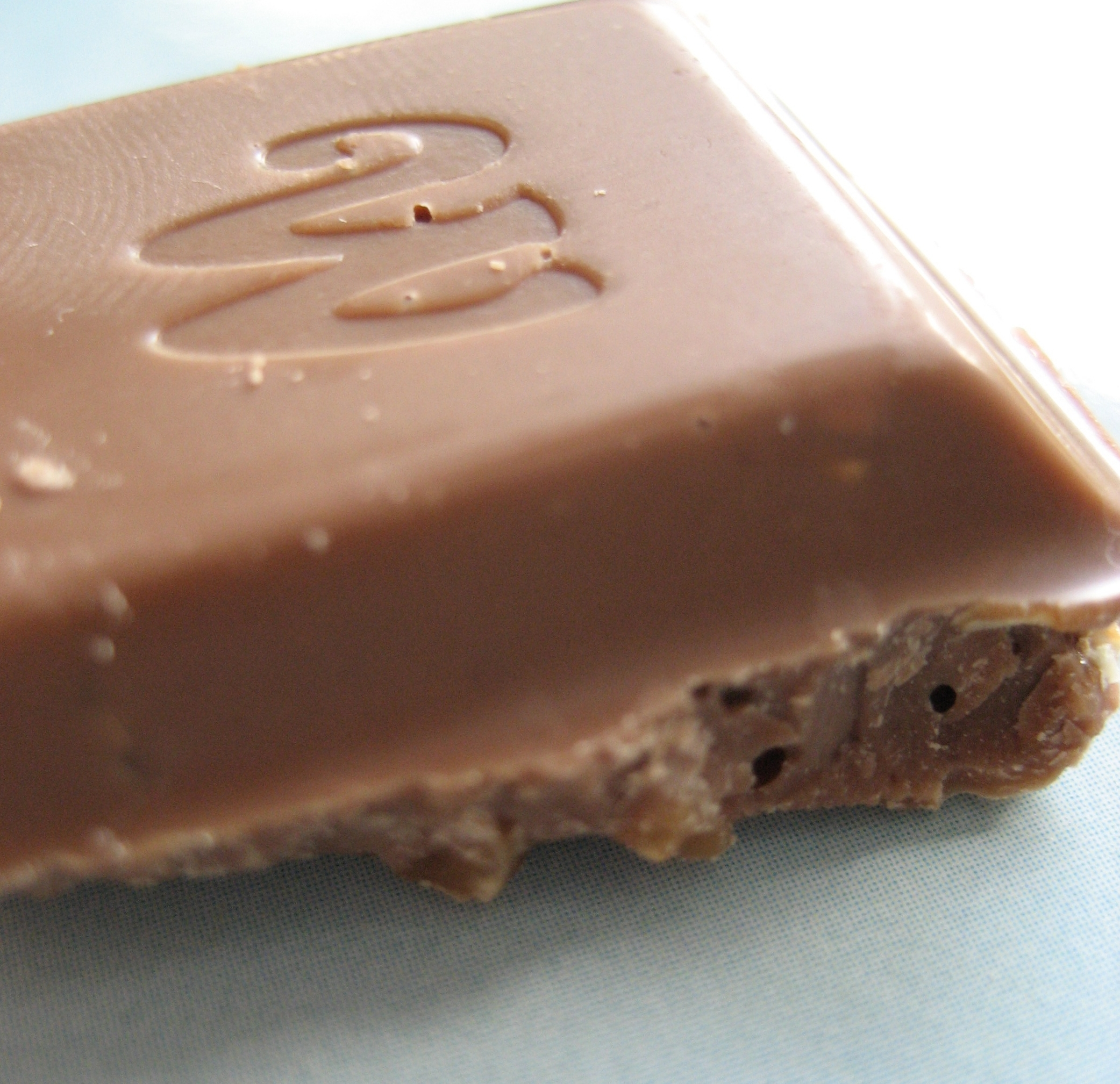 A piece of Marabou Daim.